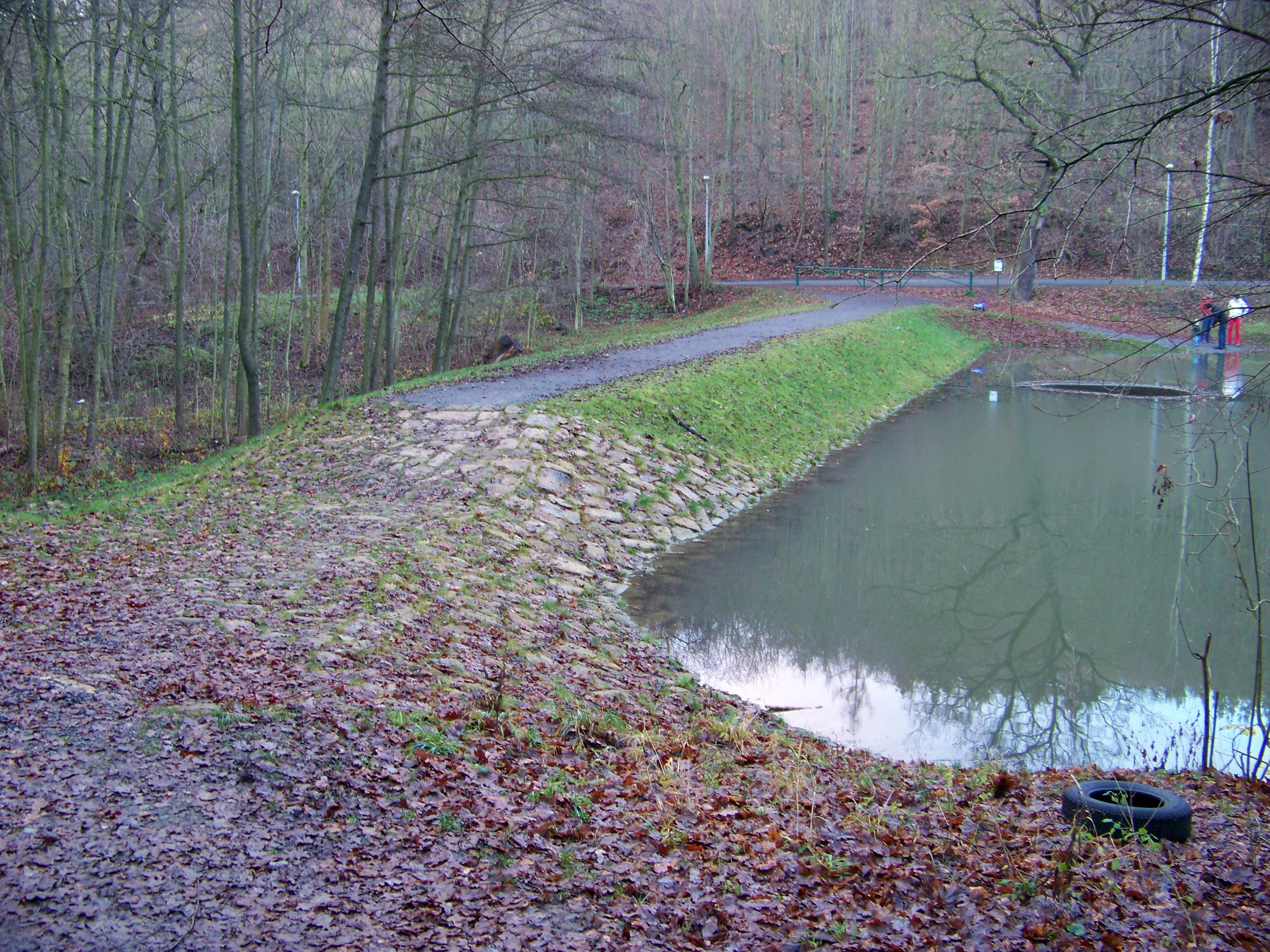 Prague-Kamýk and Hodkovičky, the Czech Republic. Zátiší, V lučinách street, a dam of the Hodkovičky Retention Pond on the Zátišský Creek.